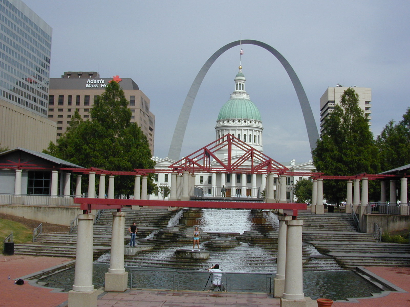 St. Louis old courthouse and the Gateway Arch Jan Kronsell, July 2004